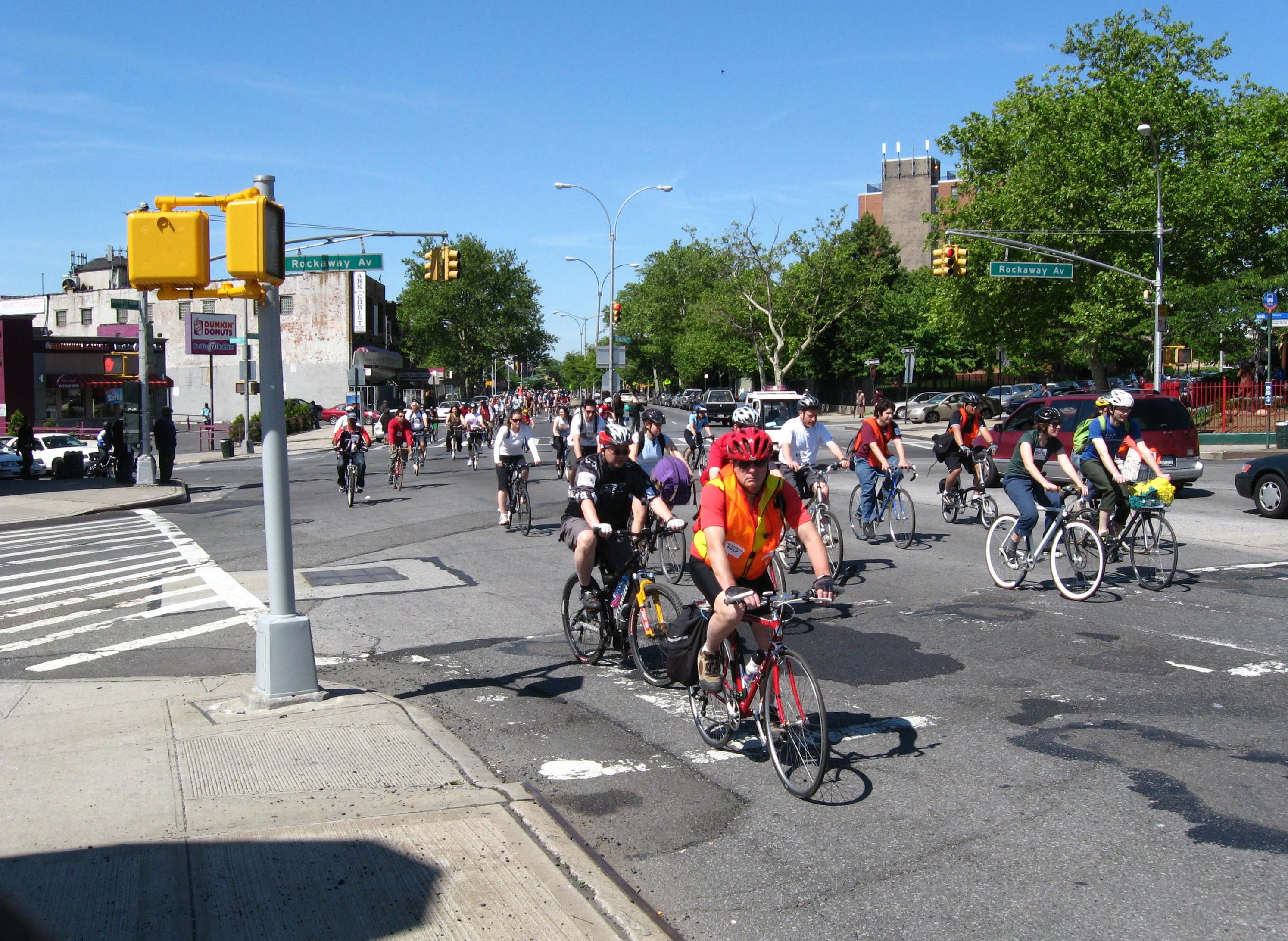 Looking southwest along Eastern Parkway at Rockaway Avenue during sunny Tour de Brooklyn. ZIP 11233.